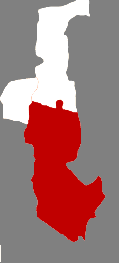 Location of Hainan districtr in Wuhai City, China